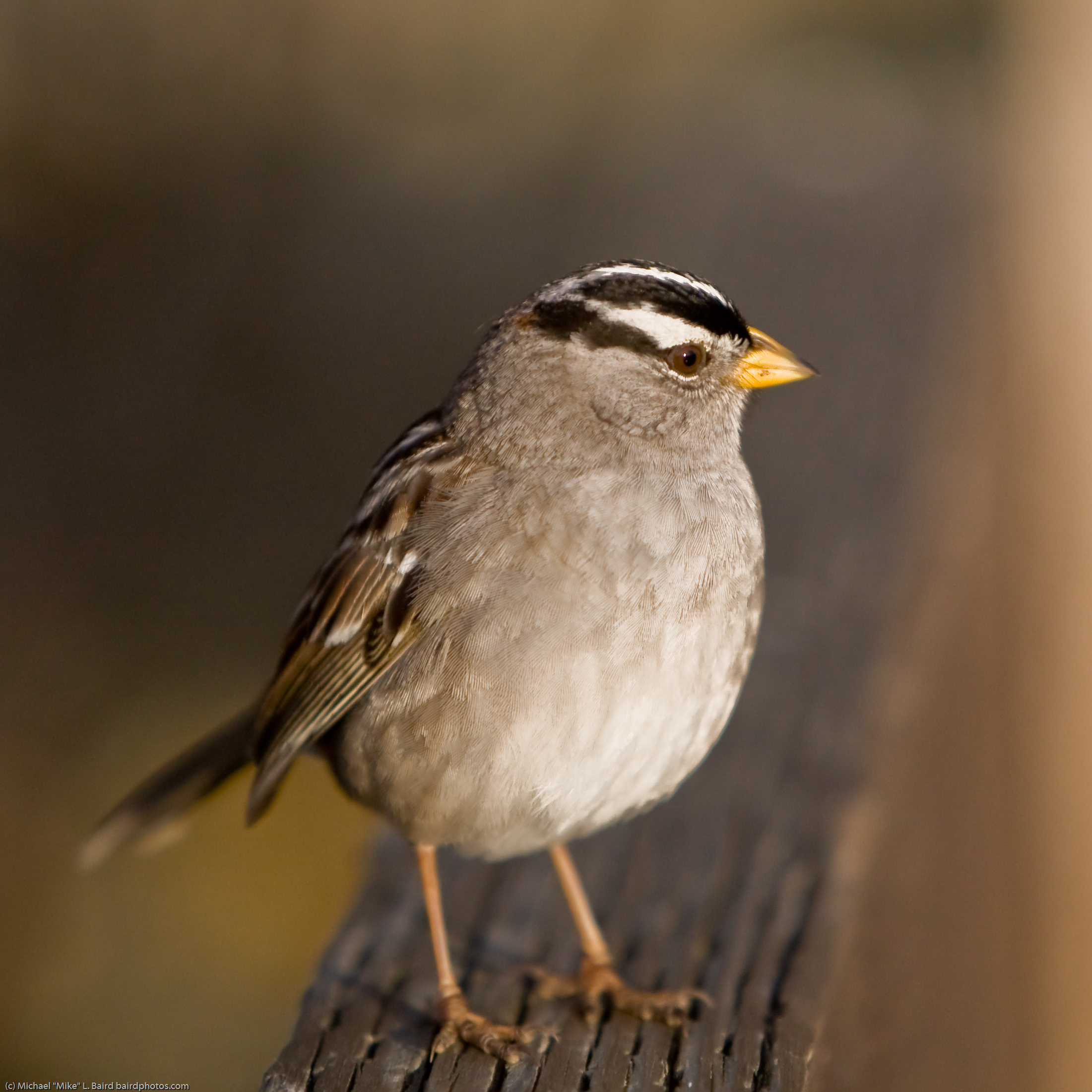 White-crowned Sparrow Zonotrichia leucophrys in the Cloisters City Park pond, Morro Bay, CA 27 Feb 2008. Photo by Michael "Mike" L. Baird Canon 1d Mark III w/ 70-200 f/2.8 lens handheld braced on wooden railing. ISO 1600 1/8000 f/3.2